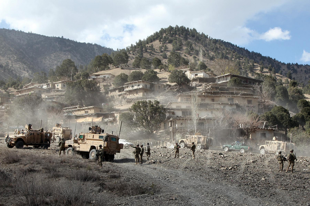 U.S. Army soldiers with 6th Squadron, 4th Cavalry Regiment, 3rd Brigade, 1st Infantry Division, prepare to search Starkats village, Khowst province, Afghanistan, April 2.